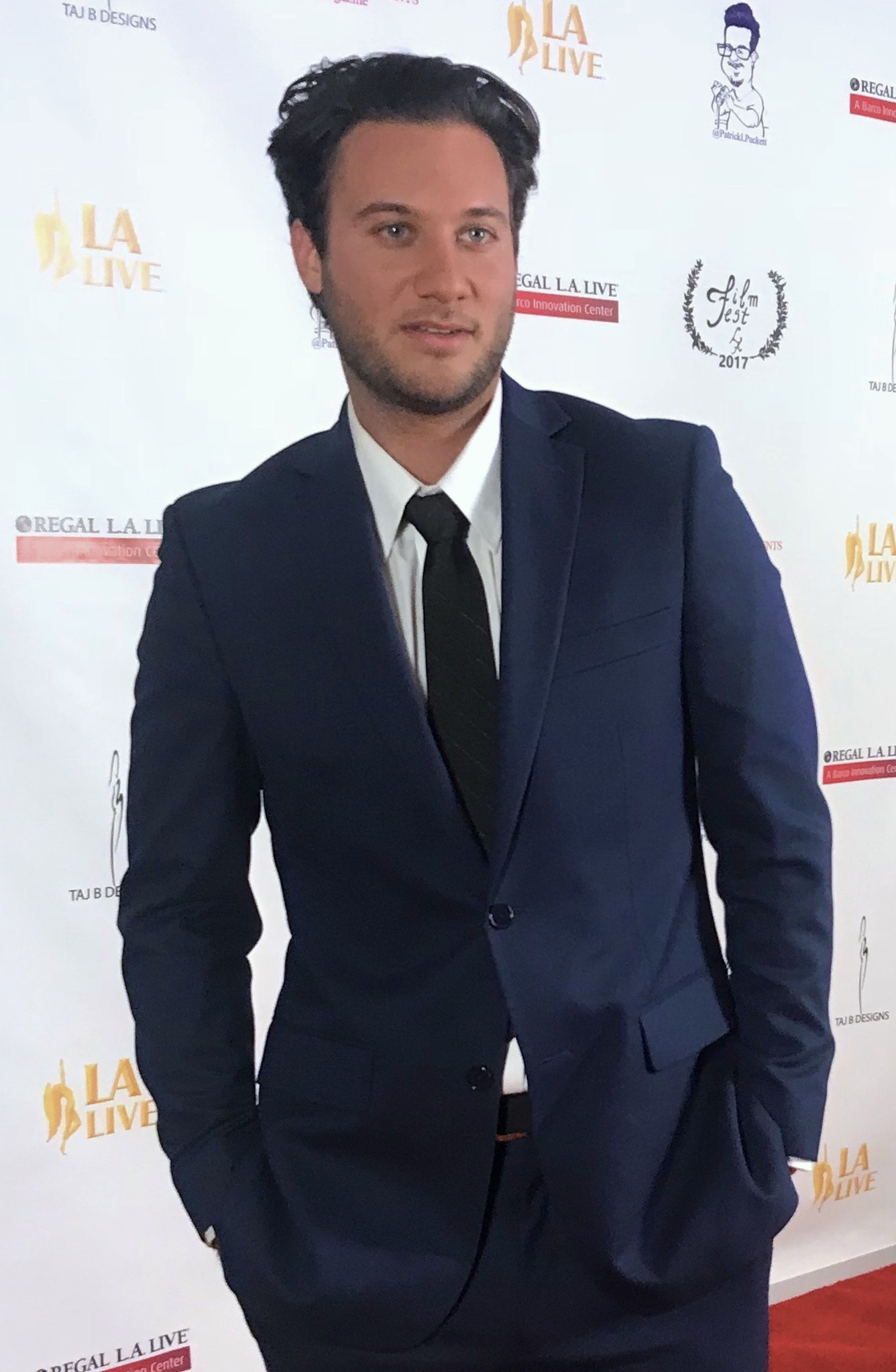 Bryce Hirschberg on the red carpet at the LA Live premiere of Counterfeiters 2017 film. Taken by me aka Barret Hirschberg on my phone.